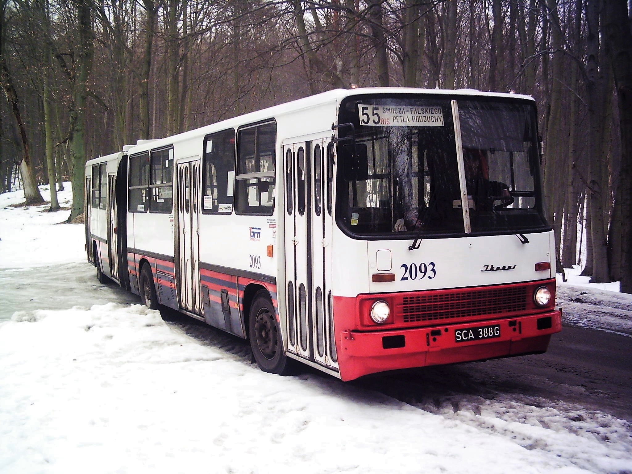 Ikarus 280.26 bus (#2093) in Szczecin, Poland. Built 1990, SPA Dąbie operator.